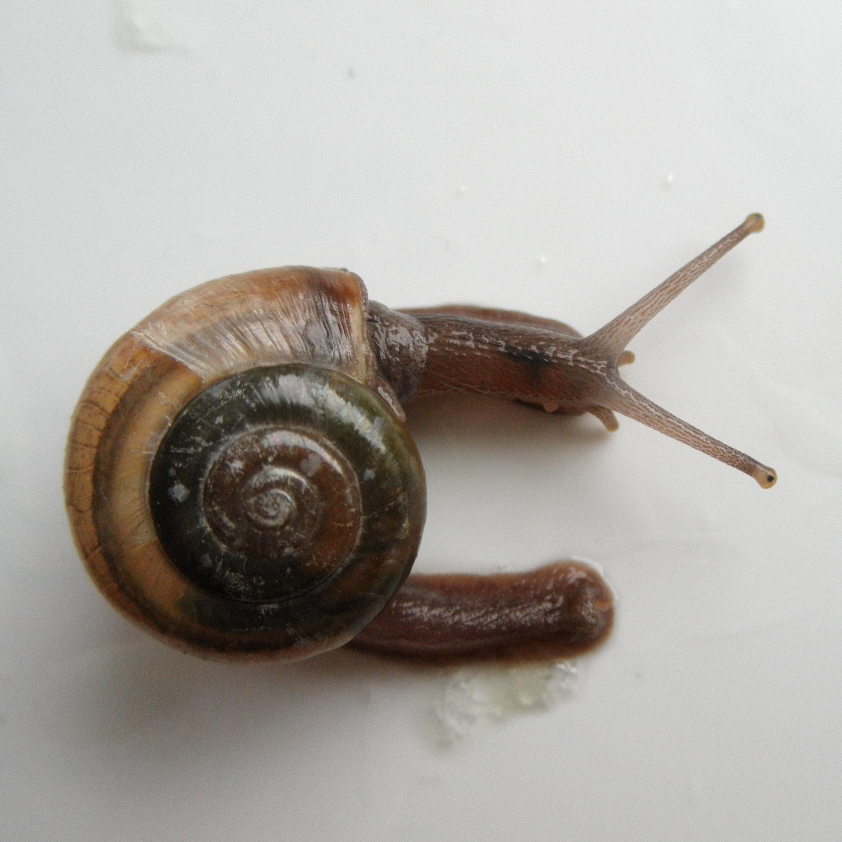 Photo of a dorsal view of a live Macrochlamys amboinensis.